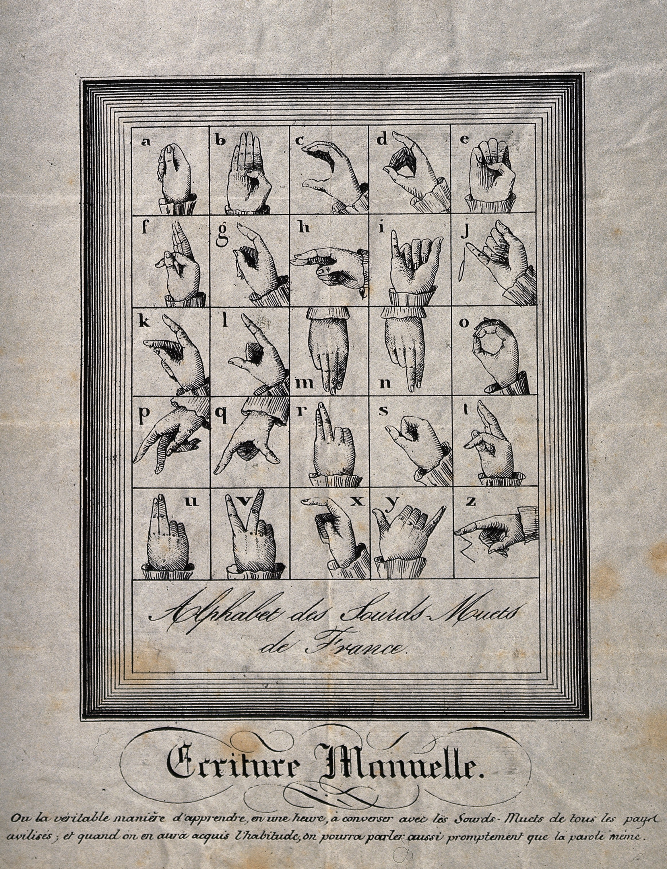 Hands showing the French sign language alphabet. Wood engraving. Iconographic Collections Keywords: ALPHABET; Sign Language